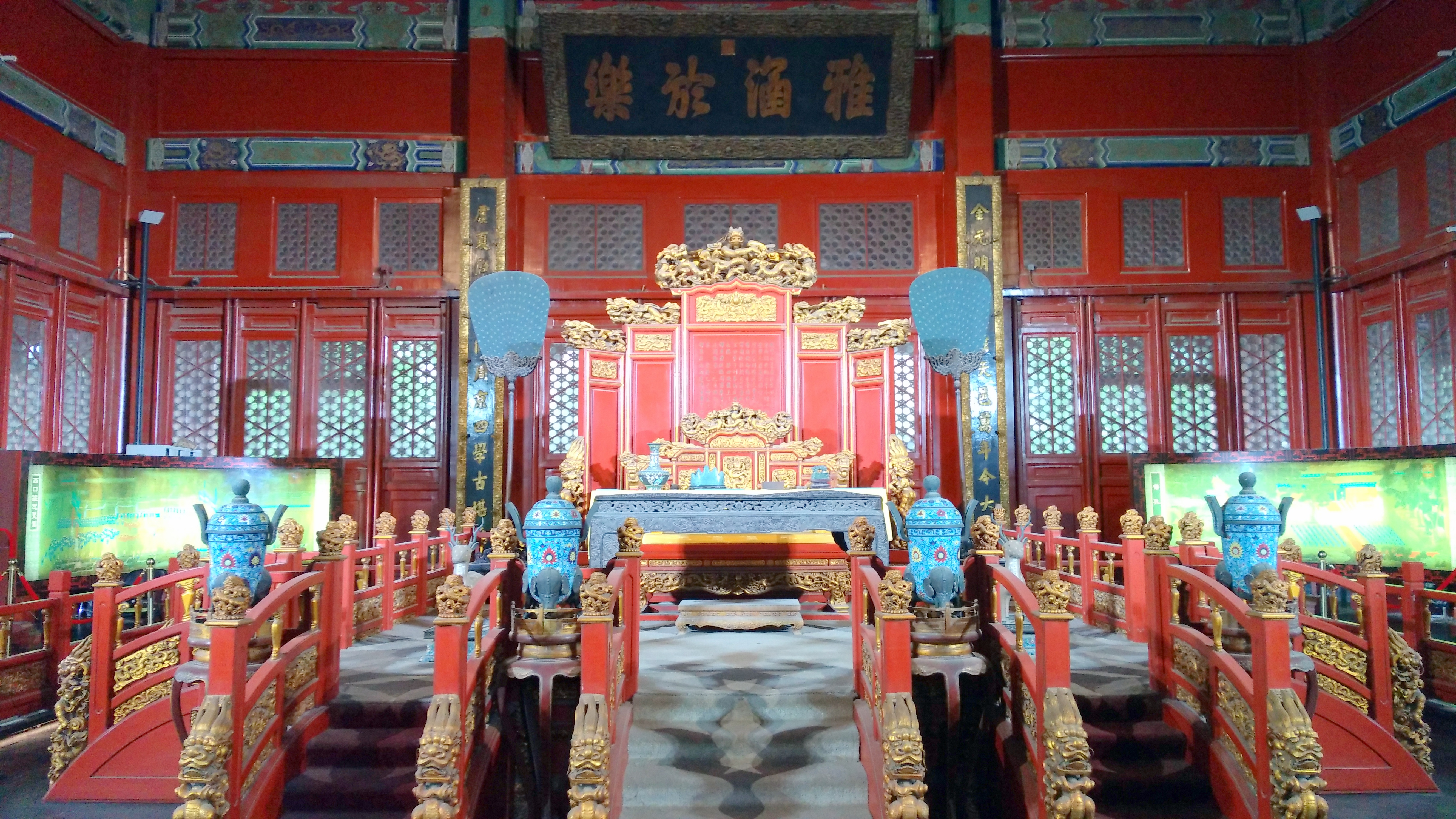 Inside of the lecture hall of imperial college, Beijing, China